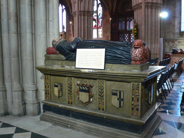 effigy of Robert Wilde or Wylde (1535-1608), clothier of The Commandery, Worcester, beside an effigy of his wife (not visible) Margaret née Cowling (1524-1606)